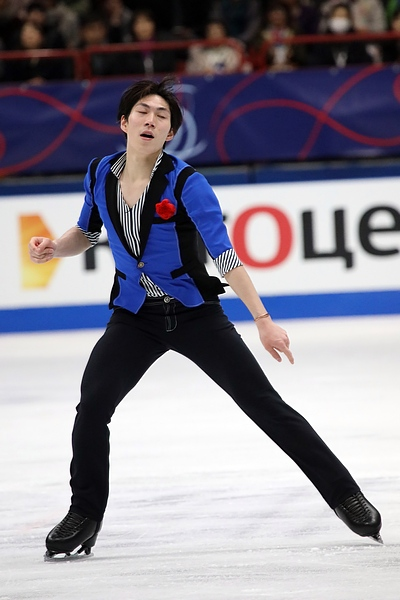 Photos – World Championships 2018 – Men (Keiji TANAKA JPN – 13th Place)